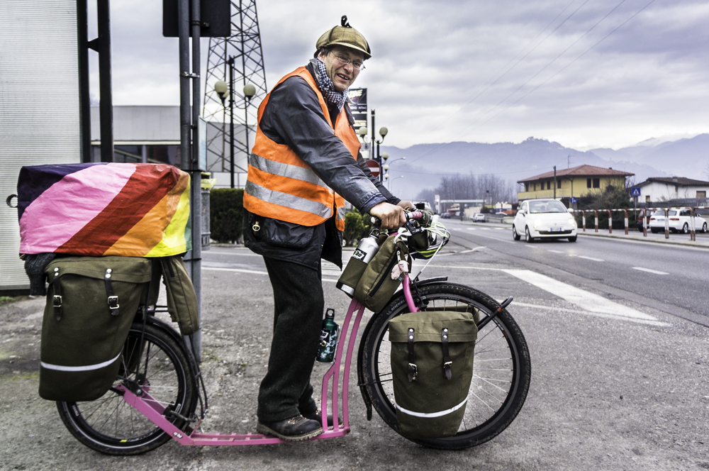 On the kick-bike in Italy.